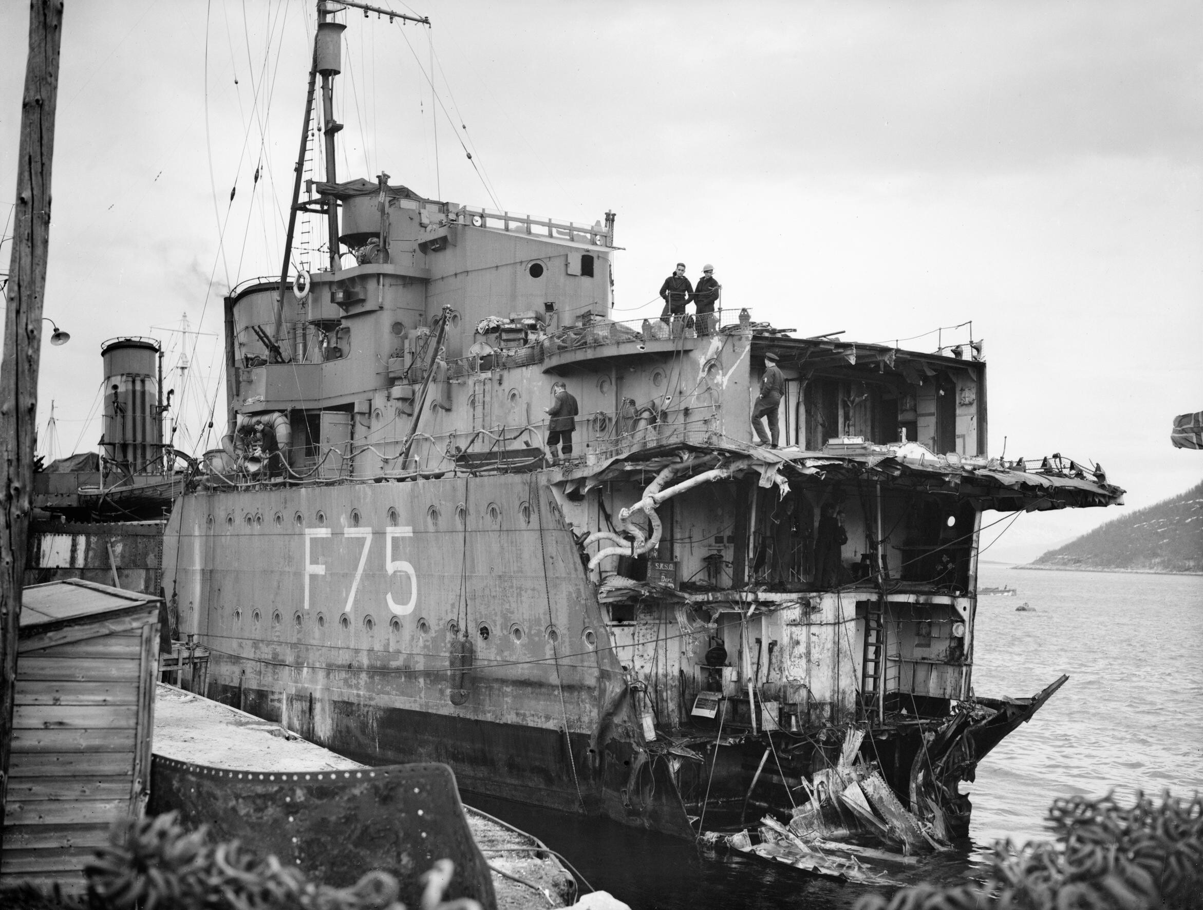 The British destroyer HMS Eskimo (F75), with her bow blown off by a torpedo during the Second Battle of Narvik, docked on the Norwegian coast. Despite this she will be setting off to England for repair in this state.